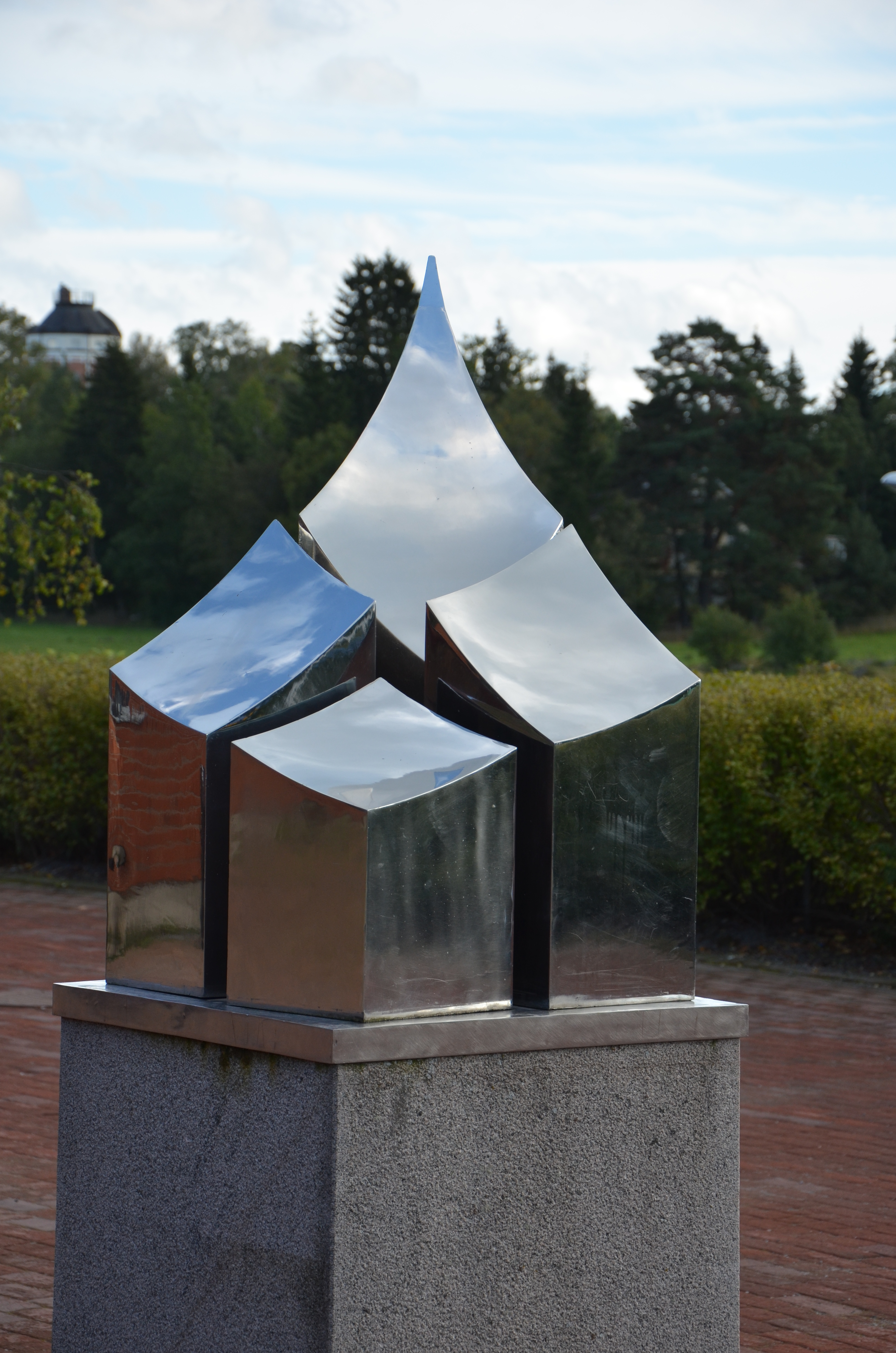 Skulptur av Einar Höste skulptur på Danderyds gymansium, stål